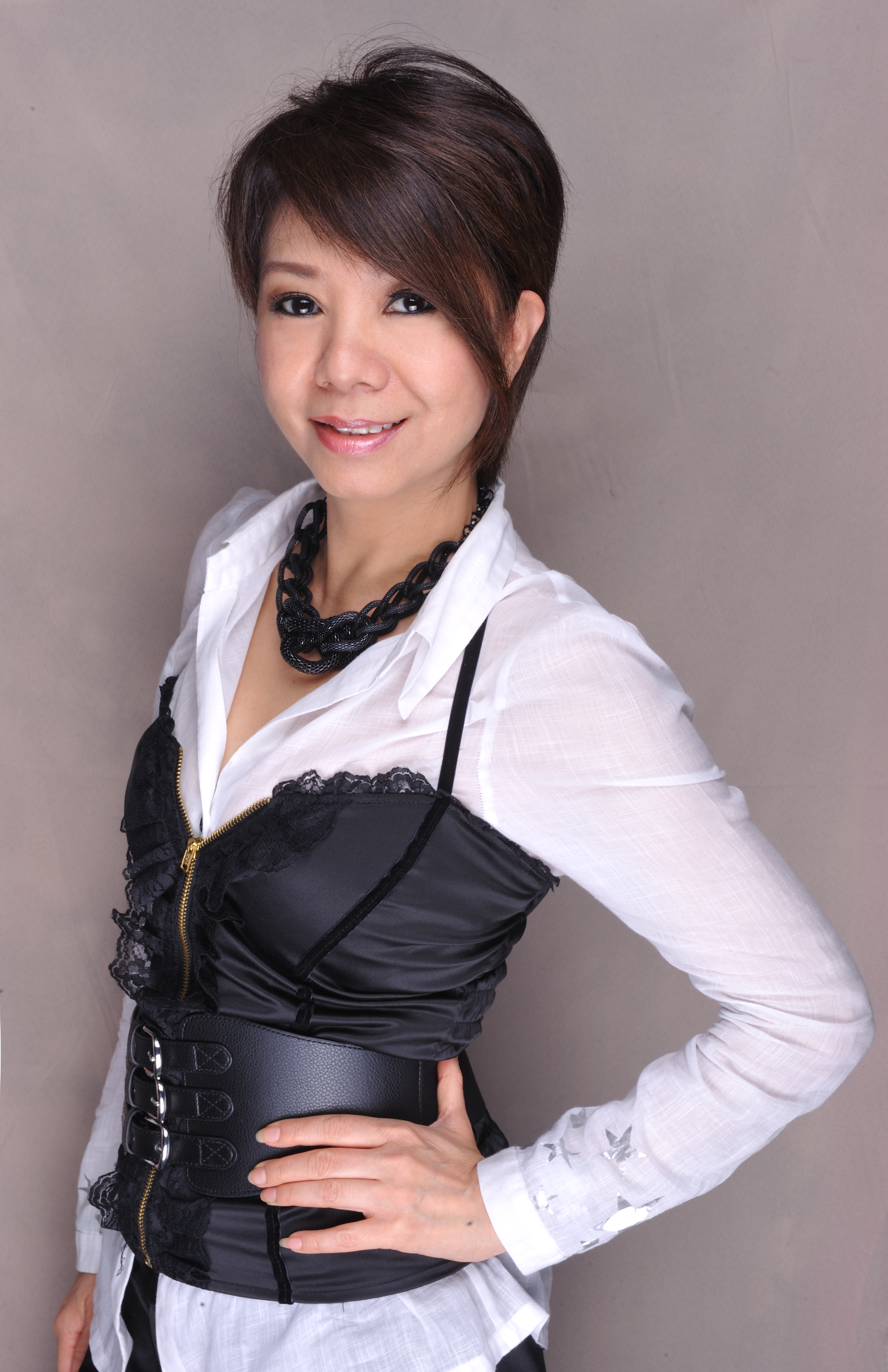 Datin Winnie Loo: Founder of a A-Cut Above Salon and Academy.